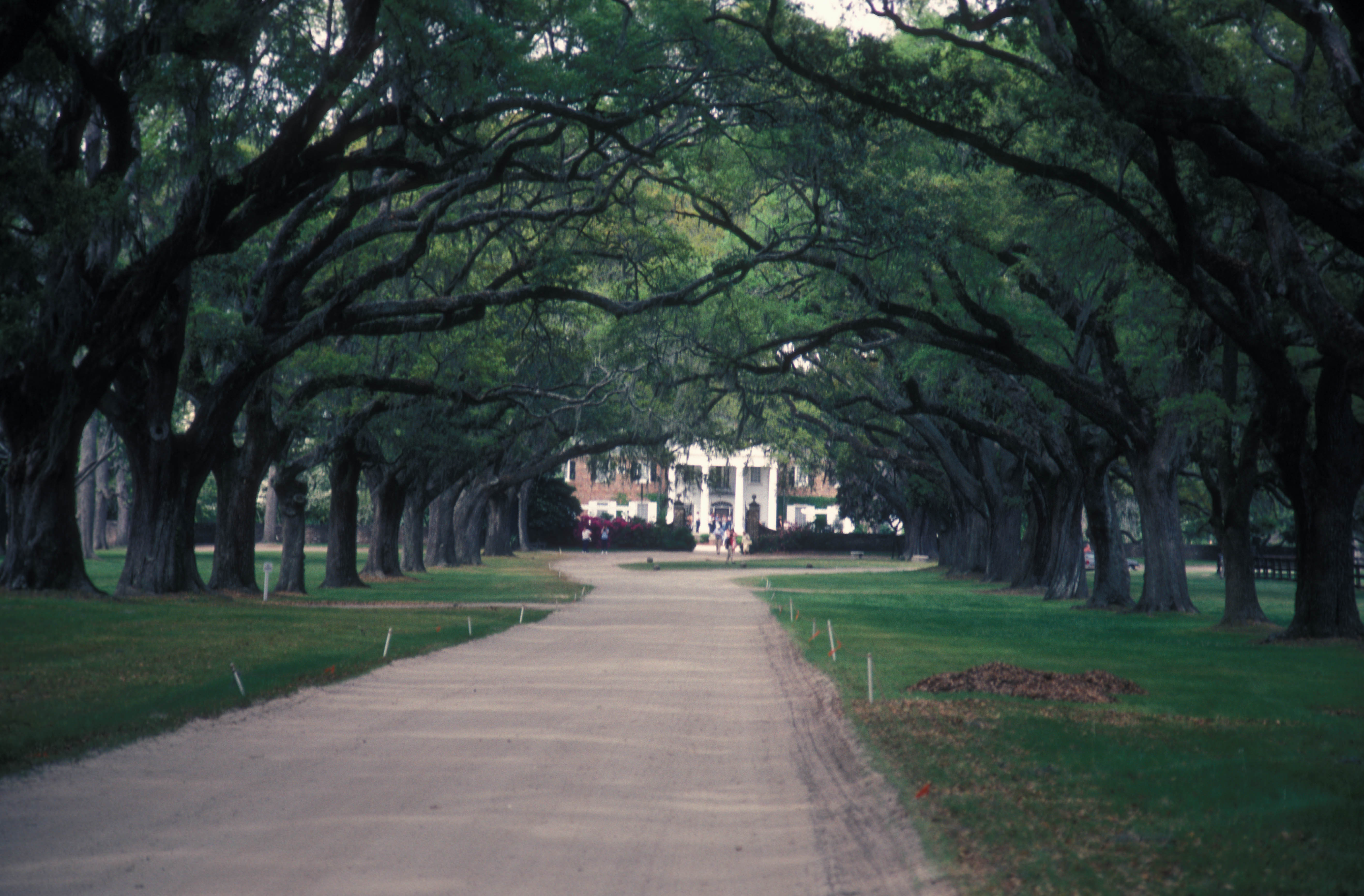 3/4 MILE AVENUE OF OAKS PLANTED IN 1743 BY CAPTAIN THOMAS BOONE. HAS BEEN USED IN THE FILMING OF MANY HOLLYWOOD MOVIES